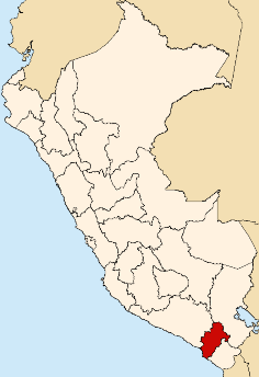 made by User:StarbucksFreak on Oct. 25 2005